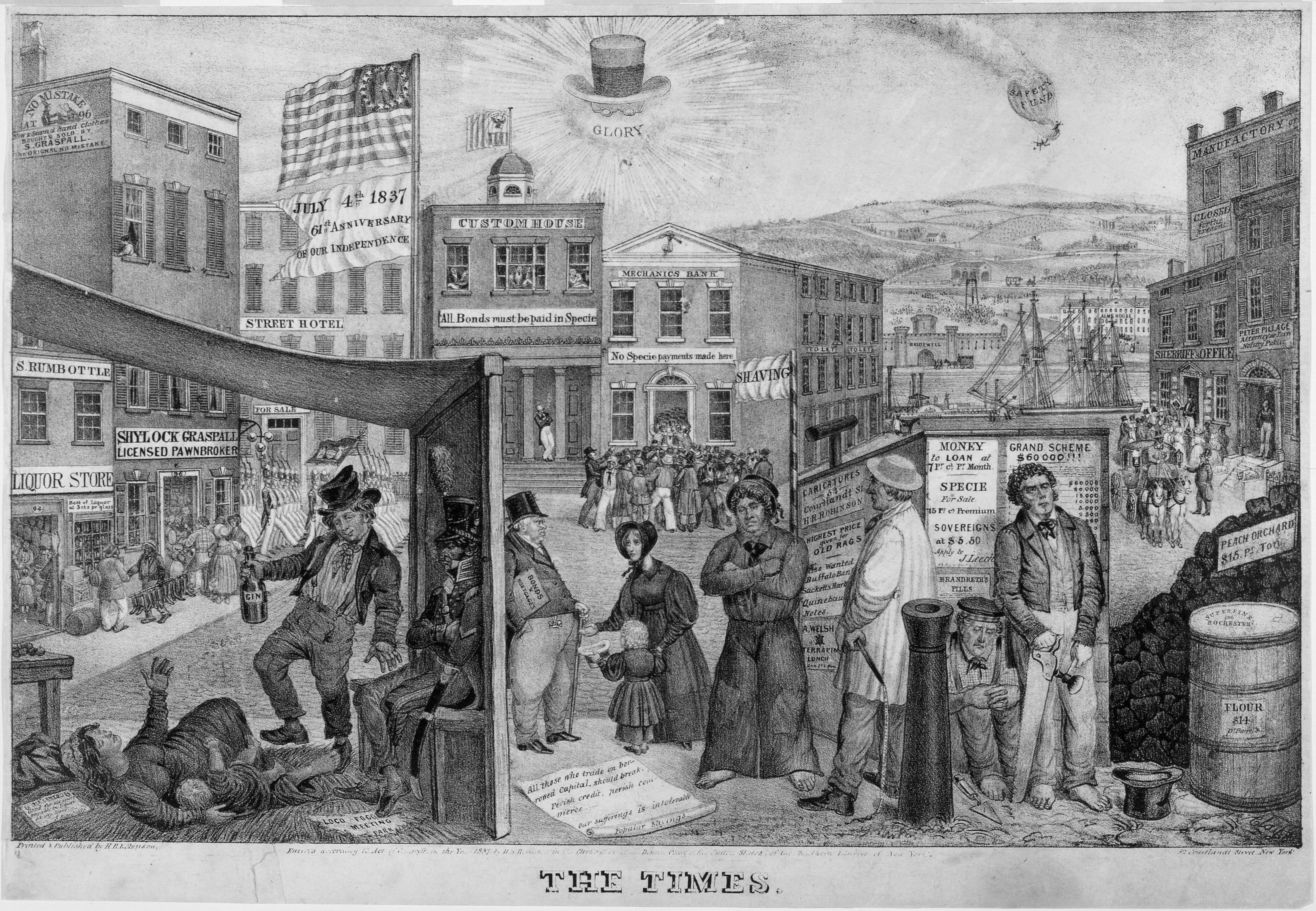 A commentary on the depressed state of the American economy, particularly in New York, during the financial panic of 1837. Again, the blame is laid on the treasury policies of Andrew Jackson, whose hat, spectacles, and clay pipe with the word "Glory" appear in the sky overhead. Clay illustrates some of the effects of the depression in a fanciful street scene, with emphasis on the plight of the working class. A panorama of offices, rooming houses, and shops reflects the hard times. The Customs House, carrying a sign "All Bonds must be paid in Specie," is idle. In contrast, the Mechanics Bank next door, which displays a sign "No specie payments made here," is mobbed by frantic customers. Principal figures are (from left to right): a mother with infant (sprawled on a straw mat), an intoxicated Bowery tough, a militiaman (seated, smoking), a banker or landlord encountering a begging widow with child, a barefoot sailor, a driver or husbandman, a Scotch mason (seated on the ground), and a carpenter. These are in contrast to the prosperous attorney "Peter Pillage," who is collected by an elegant carriage at the far right. In the background are a river, Bridewell debtors prison, and an almshouse. A punctured balloon marked "Safety Fund" falls from the sky. The print was issued in July 1837. A flag flying on the left has the sarcastic words, "July 4th 1837 61st Anniversary of our Independence."